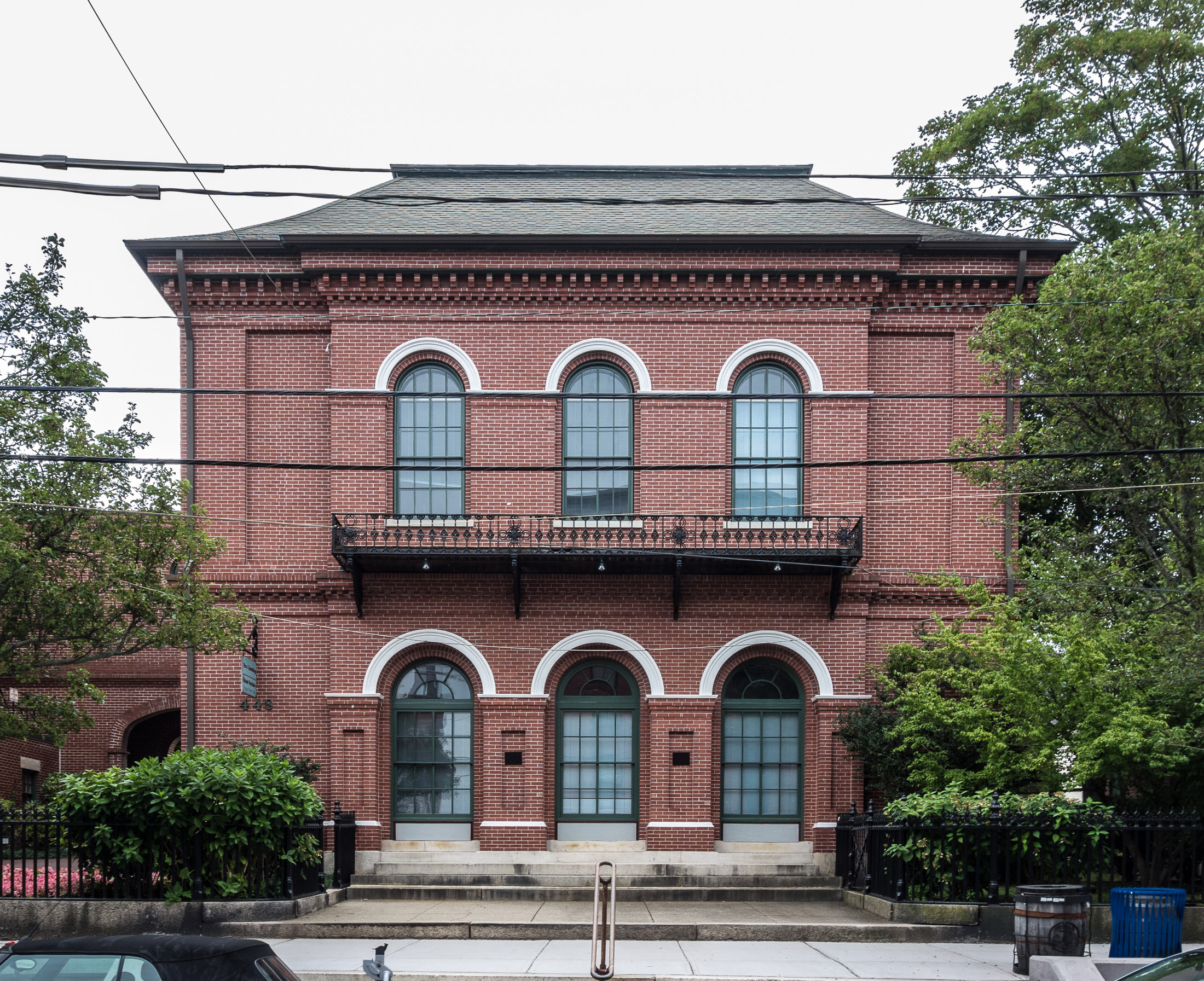 Bristol Customshouse and Post Office, 420-448 Hope St. Bristol